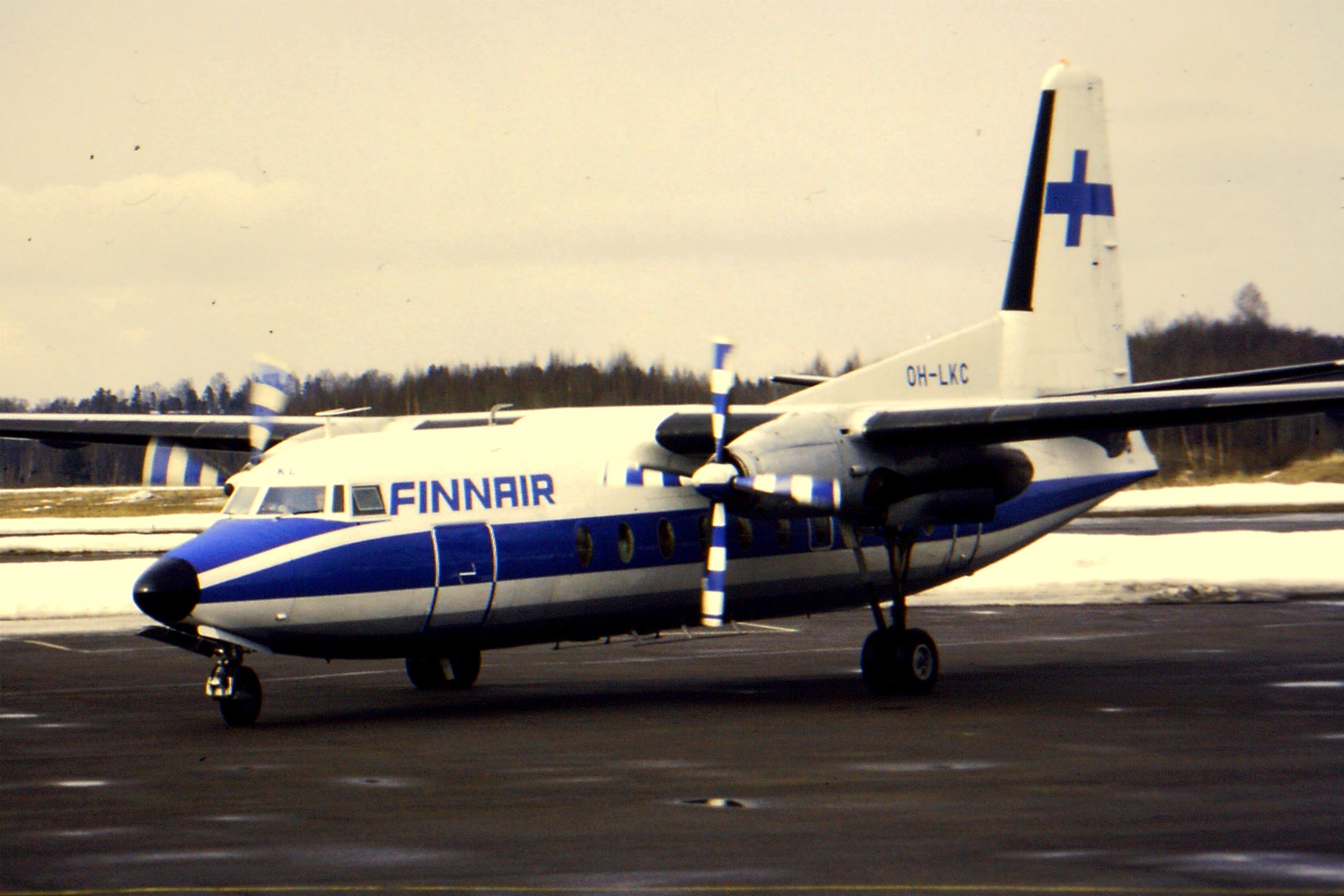 I think there was a strike or some such problem that sent the Finnair F-27 operation to Malmi Airport outside of Helsinki. Slide take in the mid-1980s.